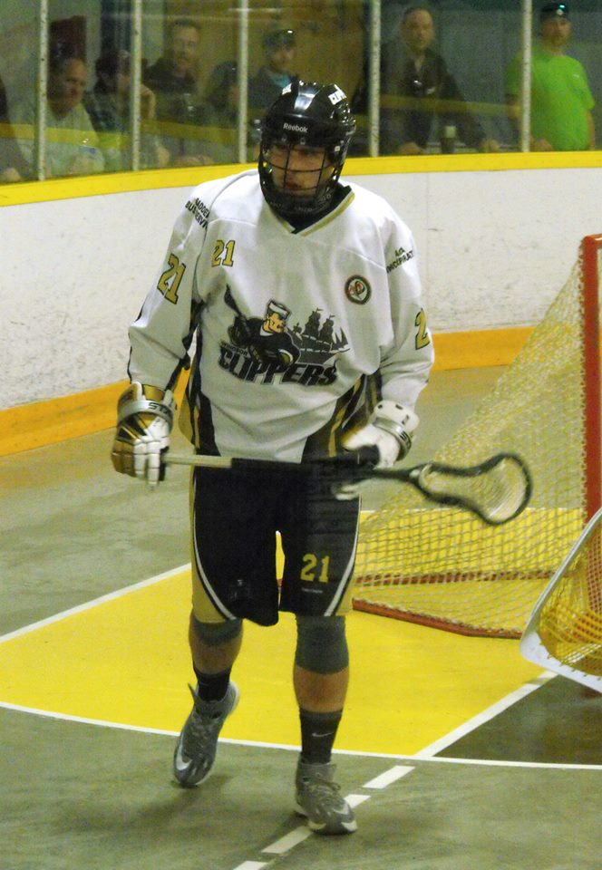 These images of Ontario Junior B Lacrosse Action action during the 2014 season are taken by Devan Mighton.